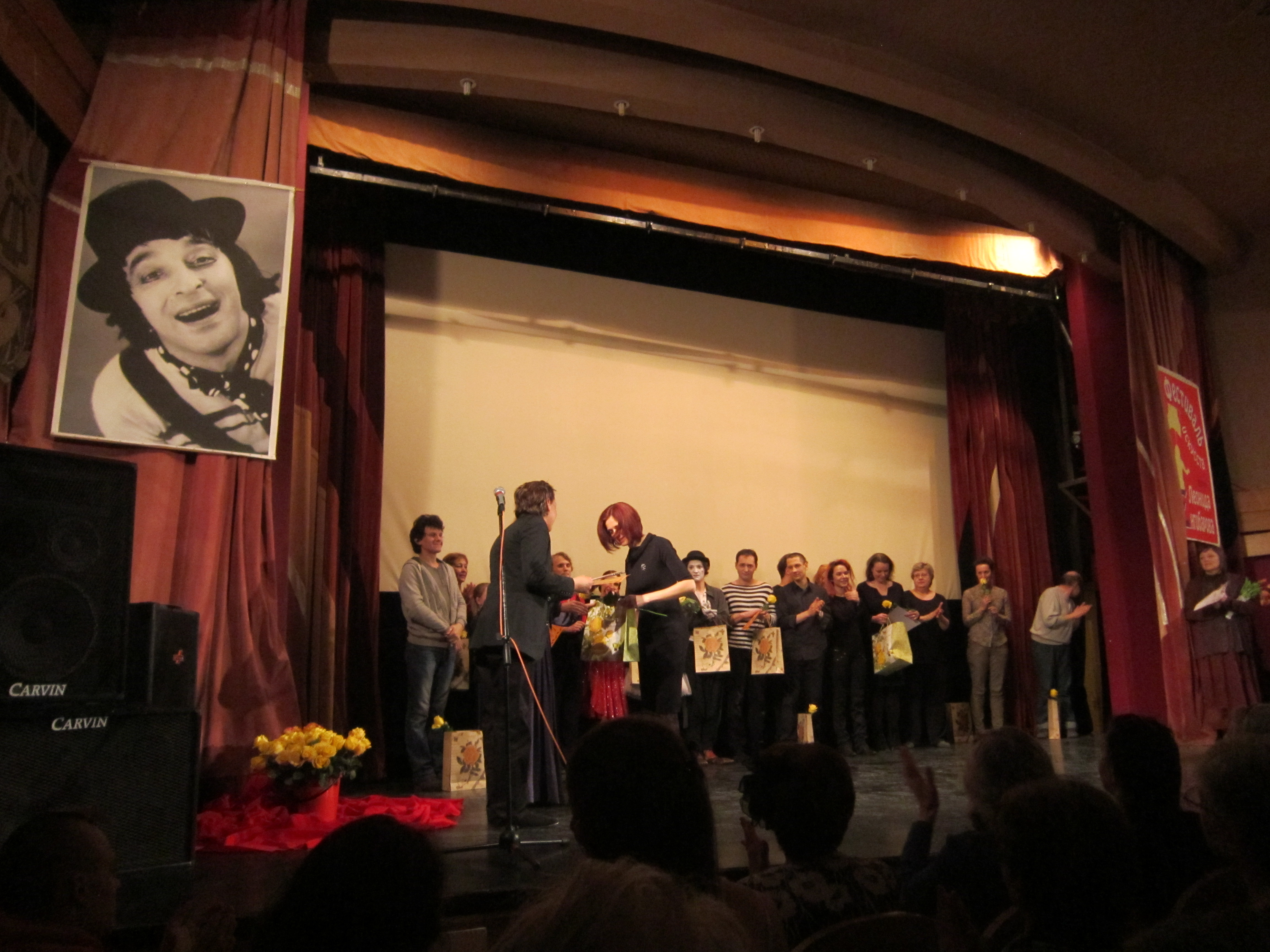 Yengibarov 8th Art Festival, Moscow, 2015